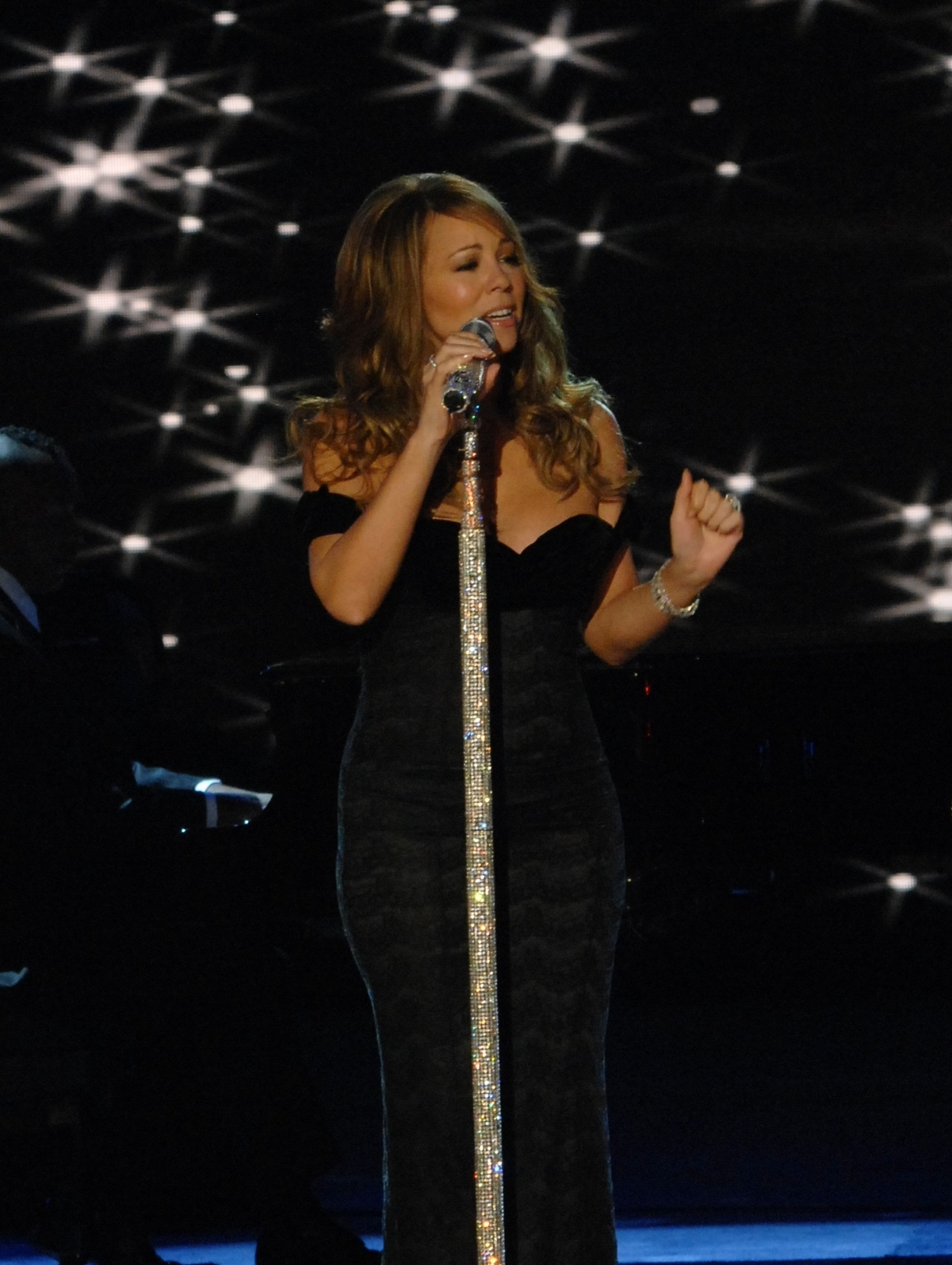 Mariah Carey sings at the Neighborhood Ball in downtown Washington, D.C., Jan. 20, 2009.